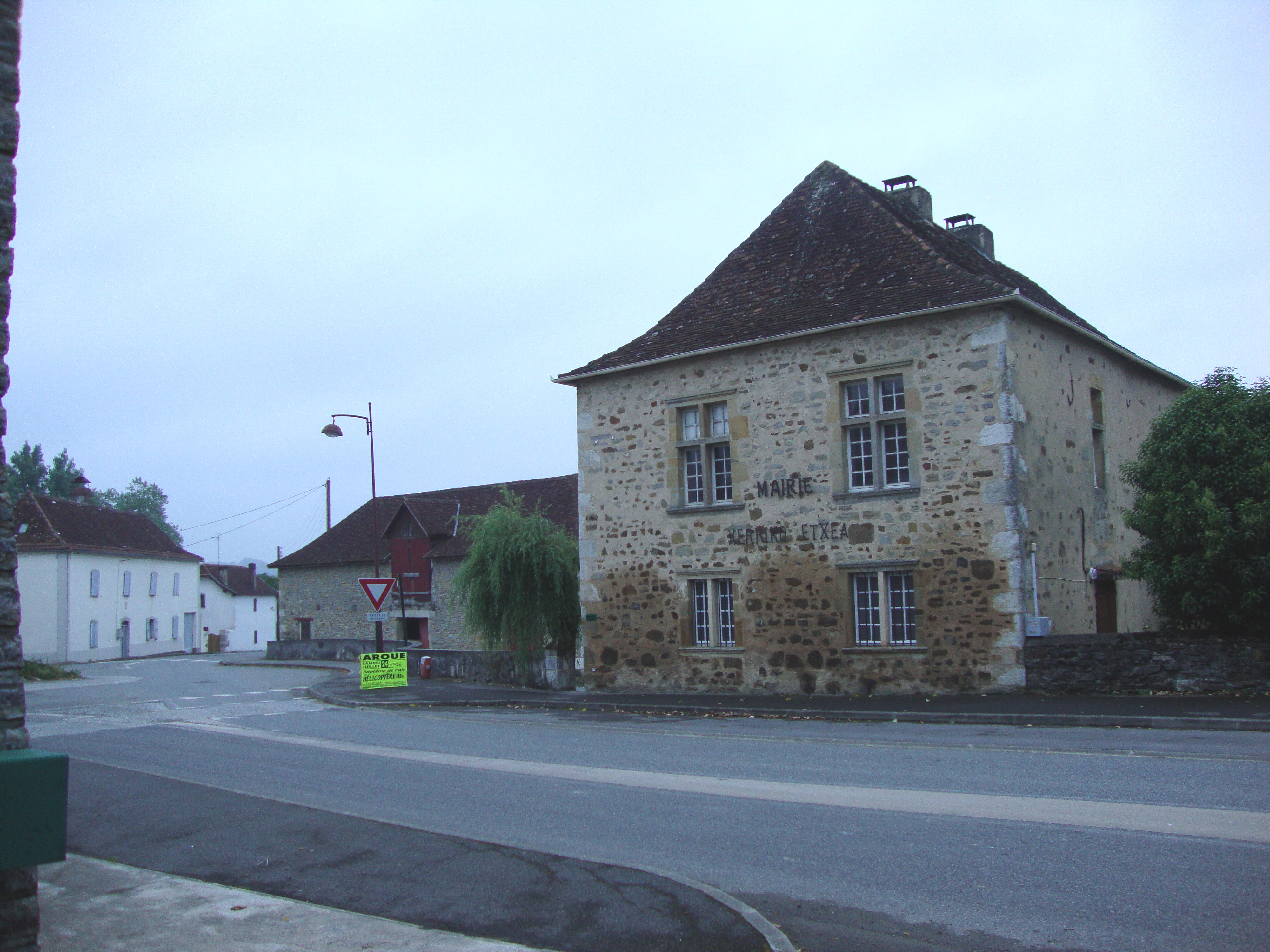 Aroue-Ithorots-Olhaïbe, Pyr-Atl,Fr) the town hall standing in Aroue.